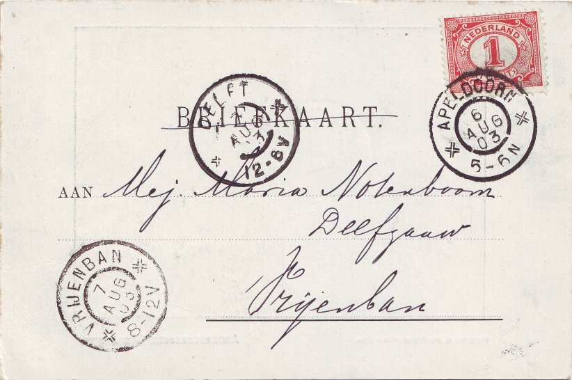 Address side of a picture postcard, sent from Apeldoorn in the Netherlands, 6 August 1903, through Delft, 7 August 1903, to Delfgauw in the community of Vrijenban, 7 August 1903.